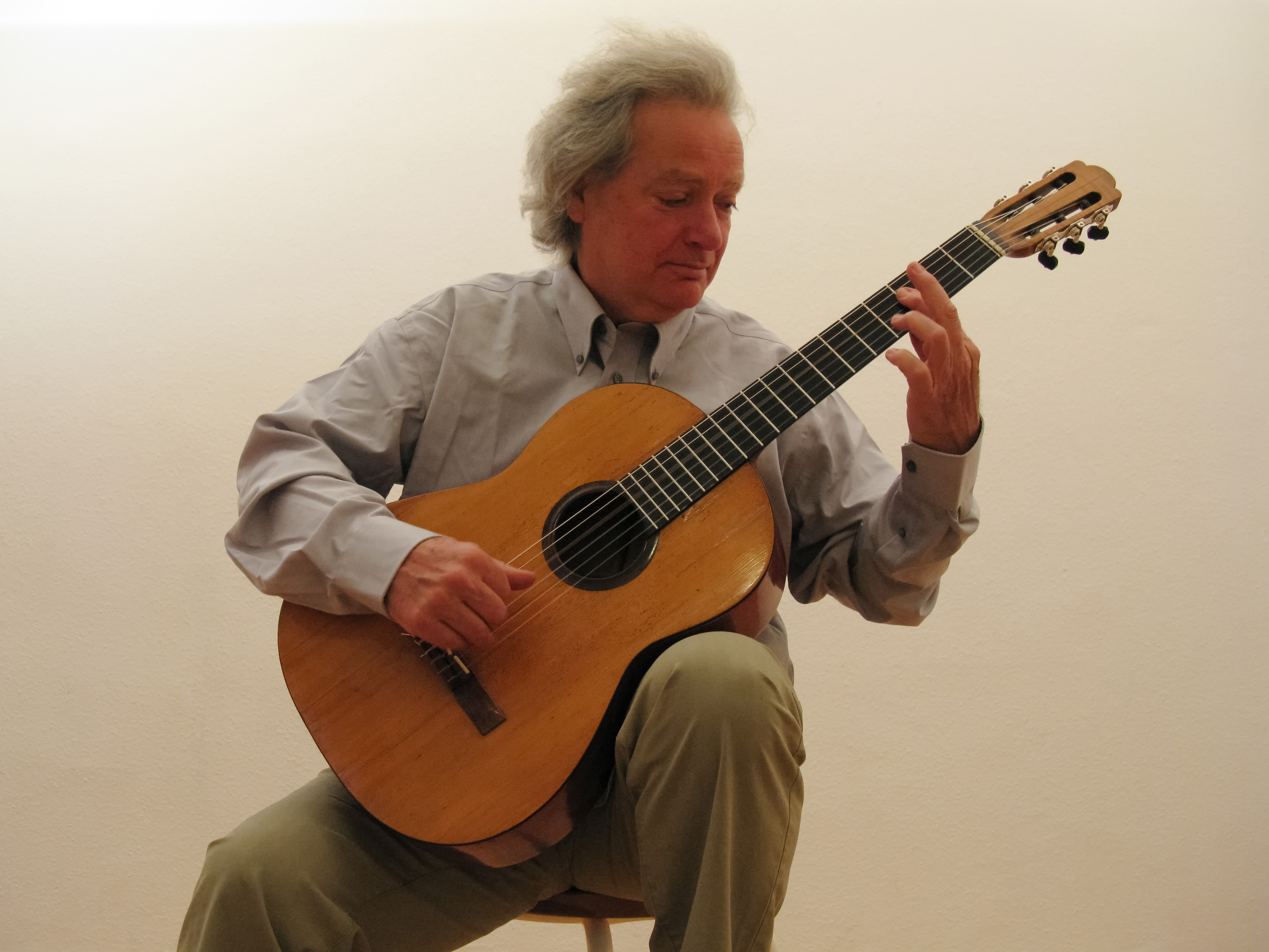 Carlo Domeniconi, Italian guitarist and composer playing a 1938 Luigi Mozzani guitar.